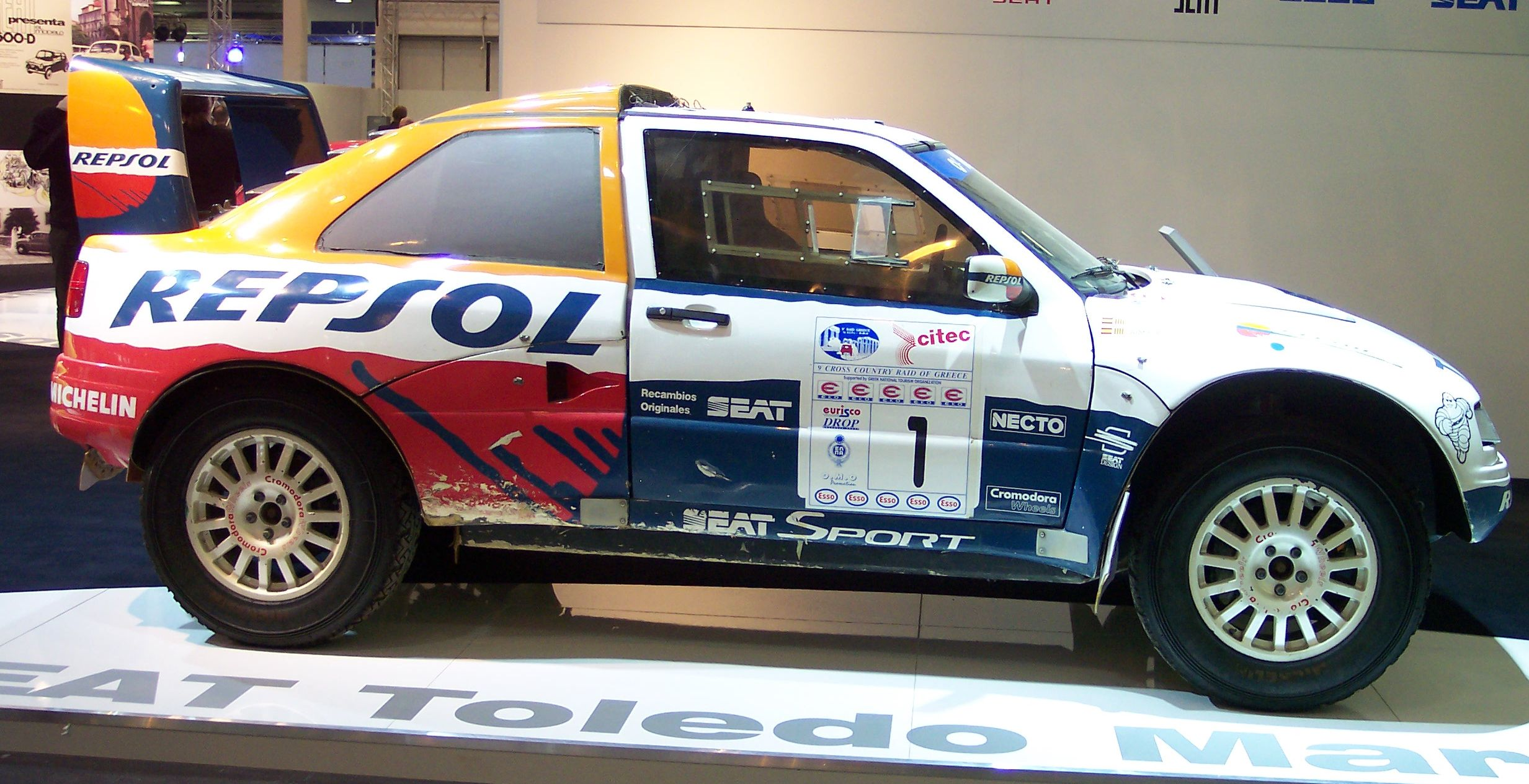 Seat Toledo Marathon